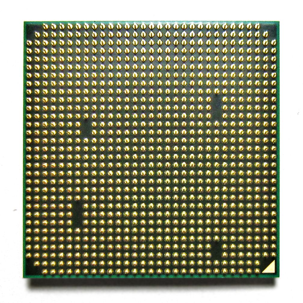 AMD Athlon II X4 630.